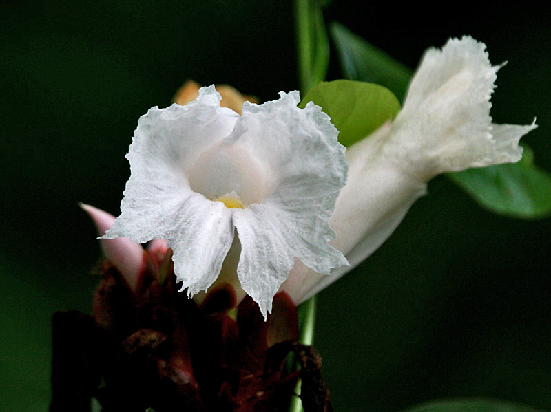 Spiral ginger (Cheilocostus speciosus). Kolkata, West Bengal, India